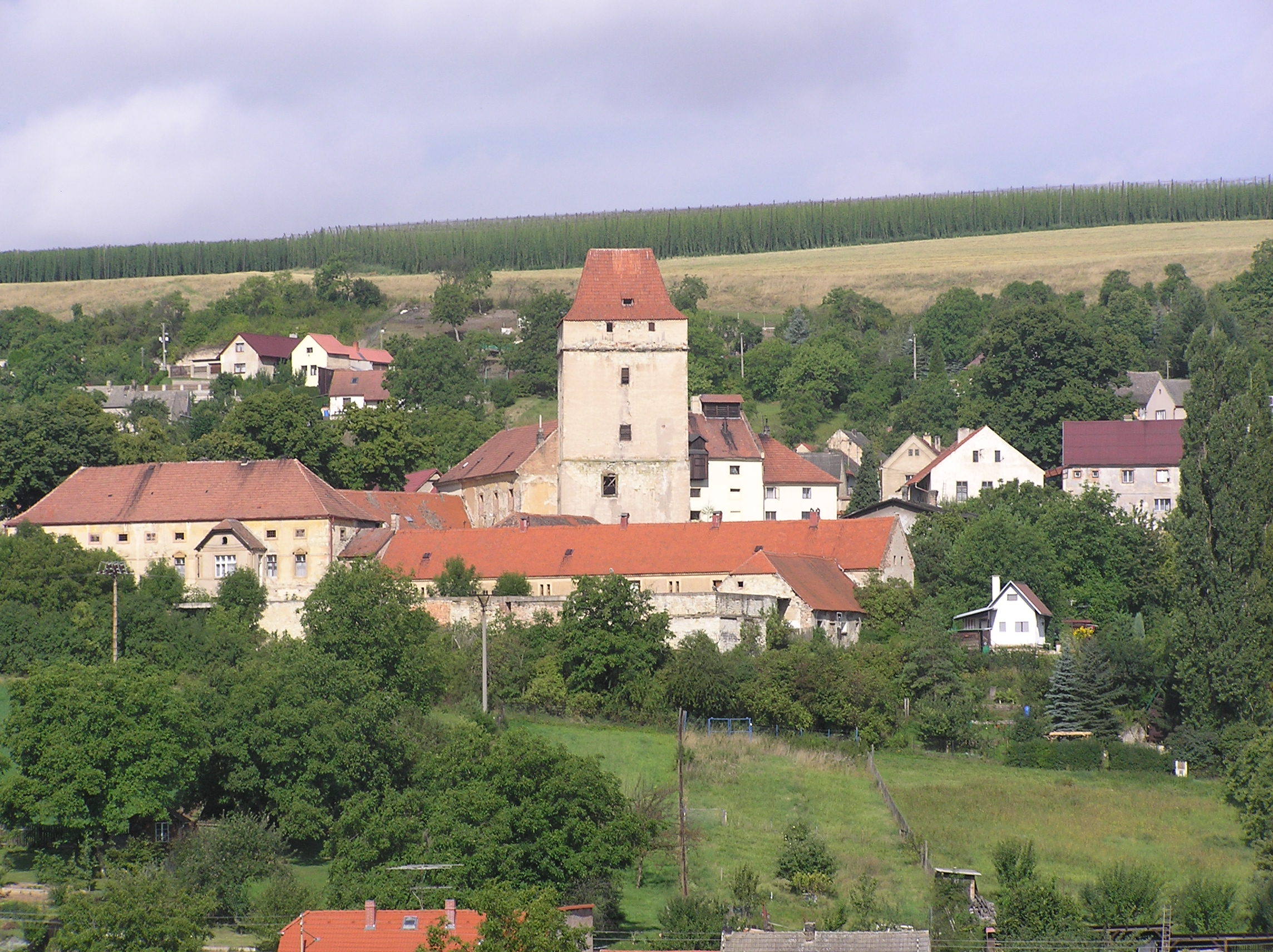 Fort in Divice